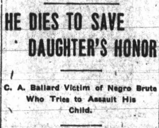 Journal Gazette. Jul 6, 1908.